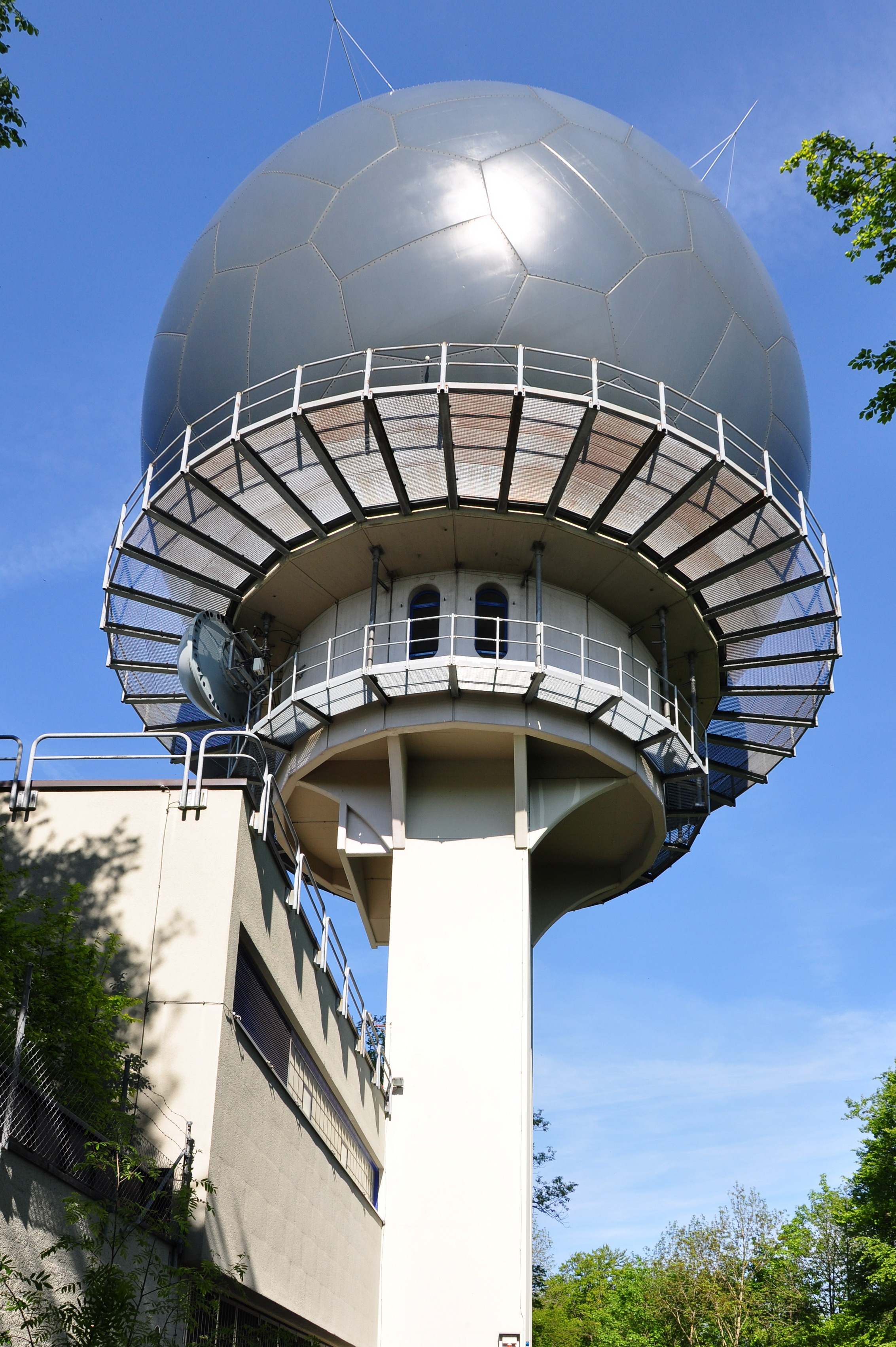 Skyguide radar dome Hochwacht in Boppelsen on Lägern (Switzerland); ITU-classificatio: Radiolocation land station in the radiolocation service.